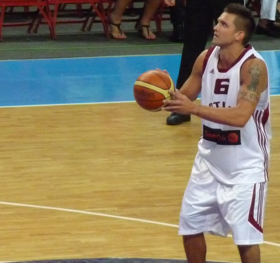 Armands Šķēle (b.1983). Picture taken during friendly match between Latvia and Sweden.